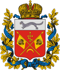 Orenburg gubernia (Russian empire), coat of arms